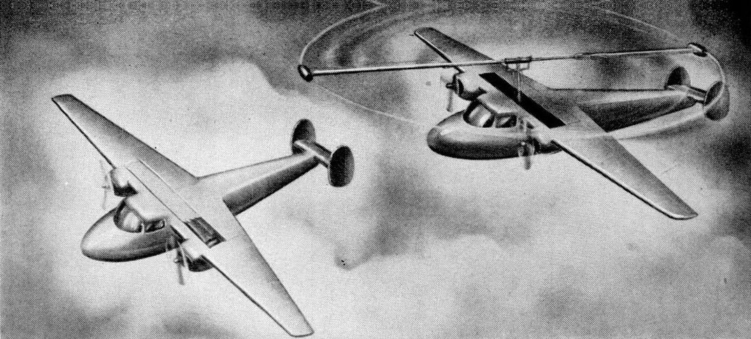 Folding Retractable Rotor System